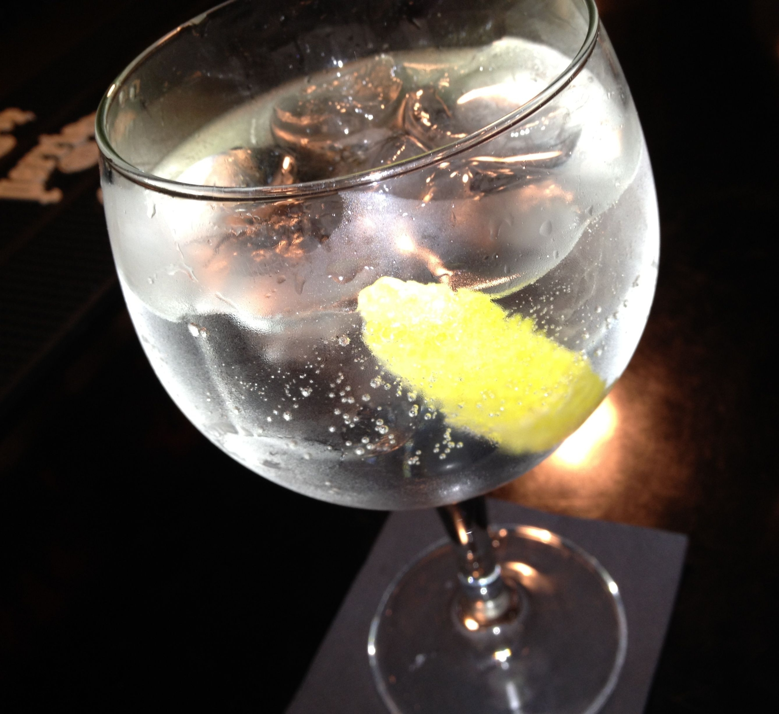 Gin and tonic with lemon